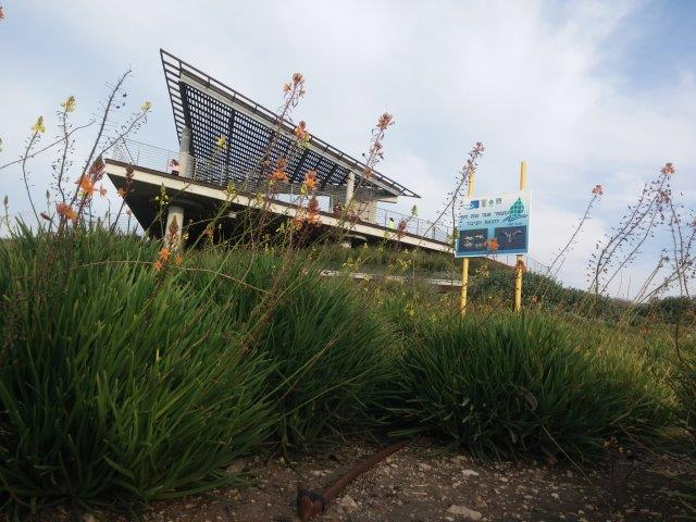 lookout reservoir Mishmar Hasharon, Emek Hefer, Israel